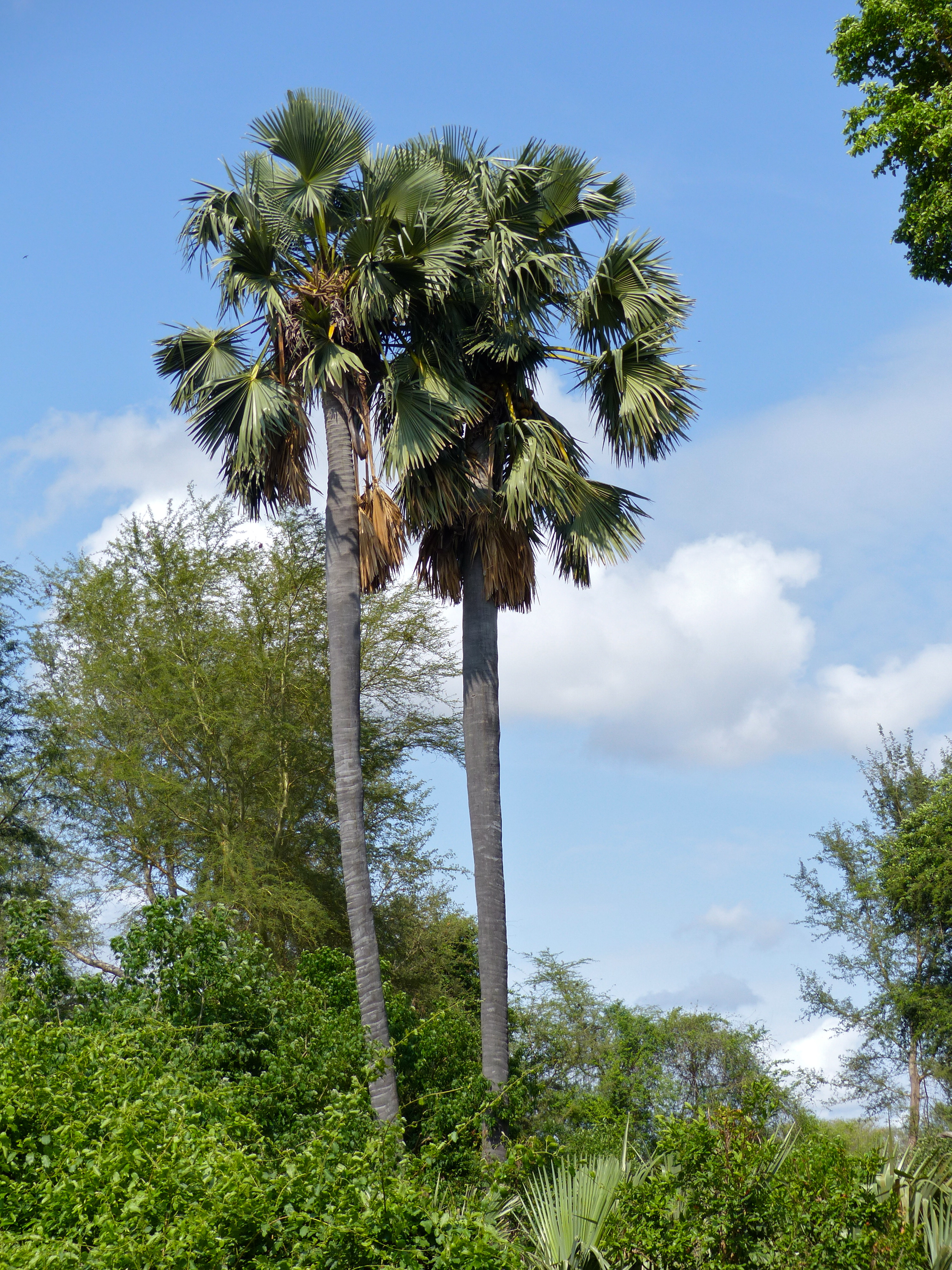 Crooks Corner, Pafuri area, Kruger NP, SOUTH AFRICA